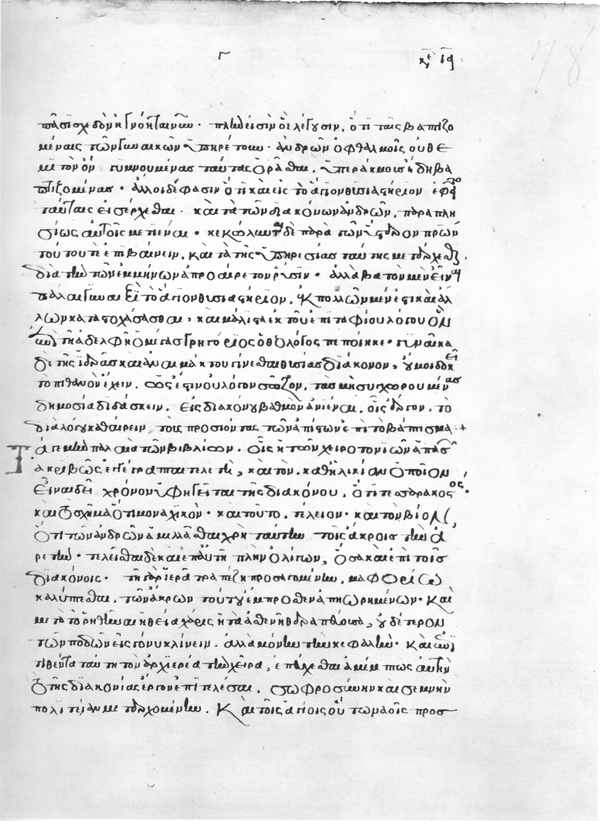 Matthew Blastares, Syntagma canonum, in ms. Rome, Biblioteca Casanatense, Codex 449, fol. 78r.